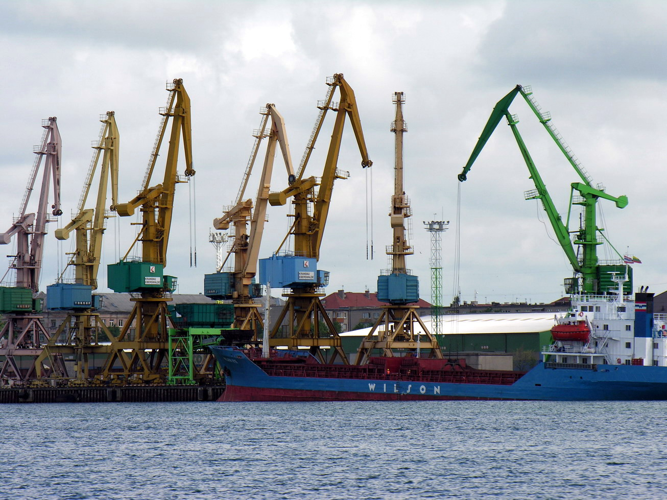 Port of Klaipėda, Lithuania